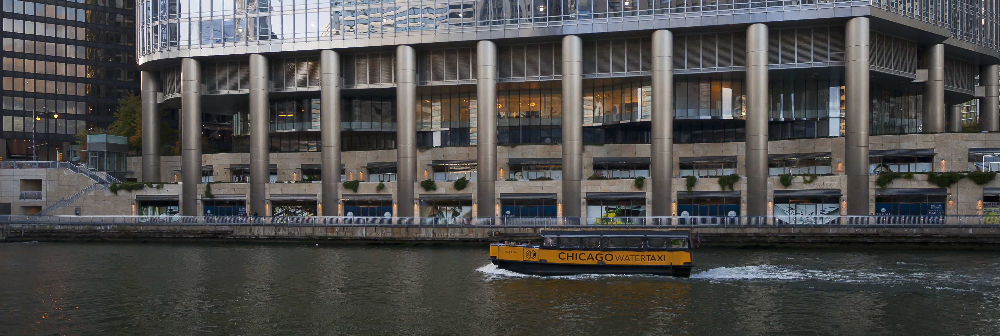 Chicago Riverwalk segment at the Trump International Hotel and Tower, Chicago, Illinois, USA. This segment includes several retail spaces. When the tower was built the retail space totaled 83,000 square-feet. Trump, however, has failed to find a single occupant for any of these spaces as of 2016, eight years after the building opened.